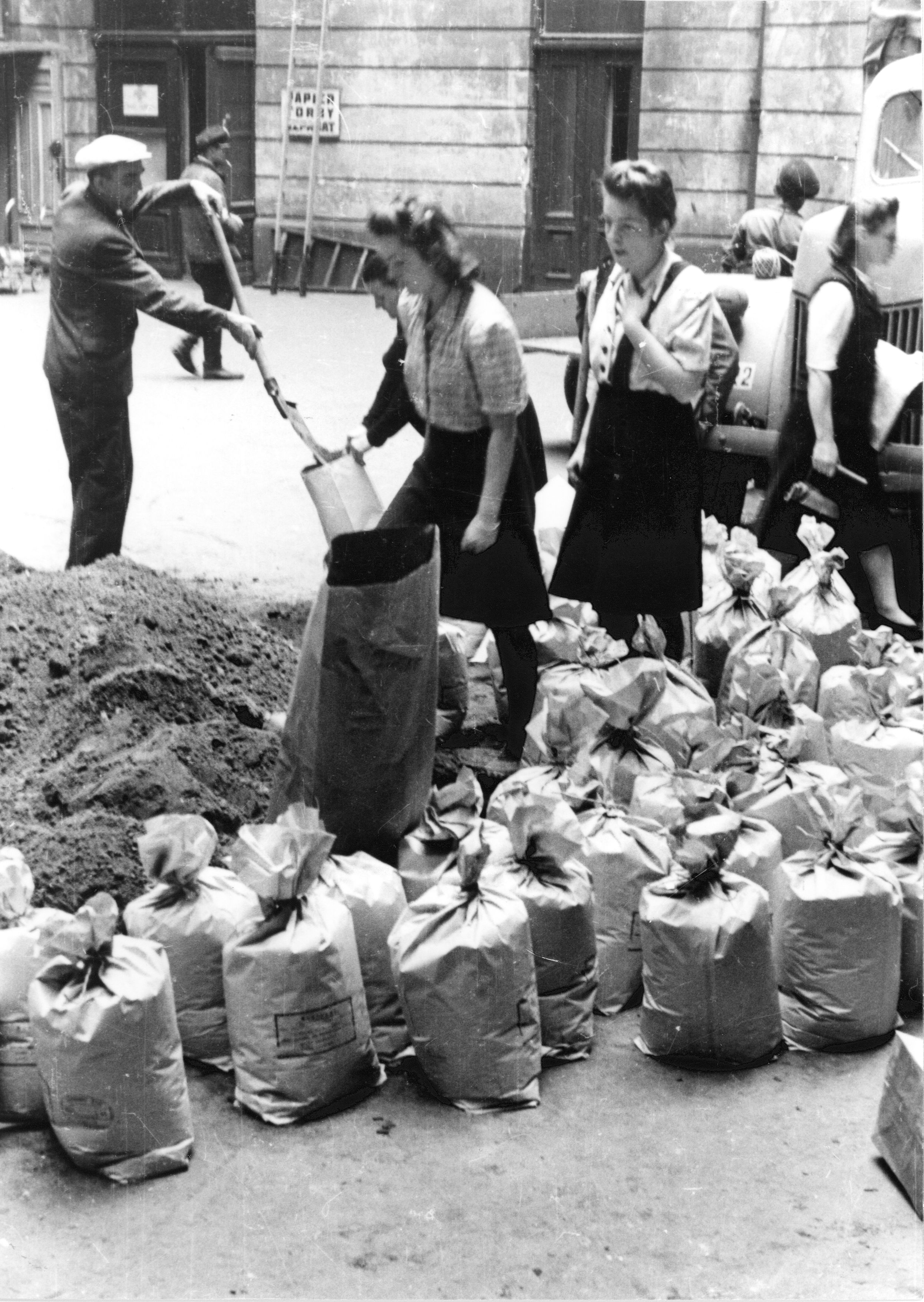 Warsaw Uprising: Filling of sand bags by civilian population in the courtyard of townhouse at Moniuszki 11 street.